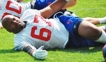 Kareem McKenzie of the New York Giants warms up at 2007 training camp